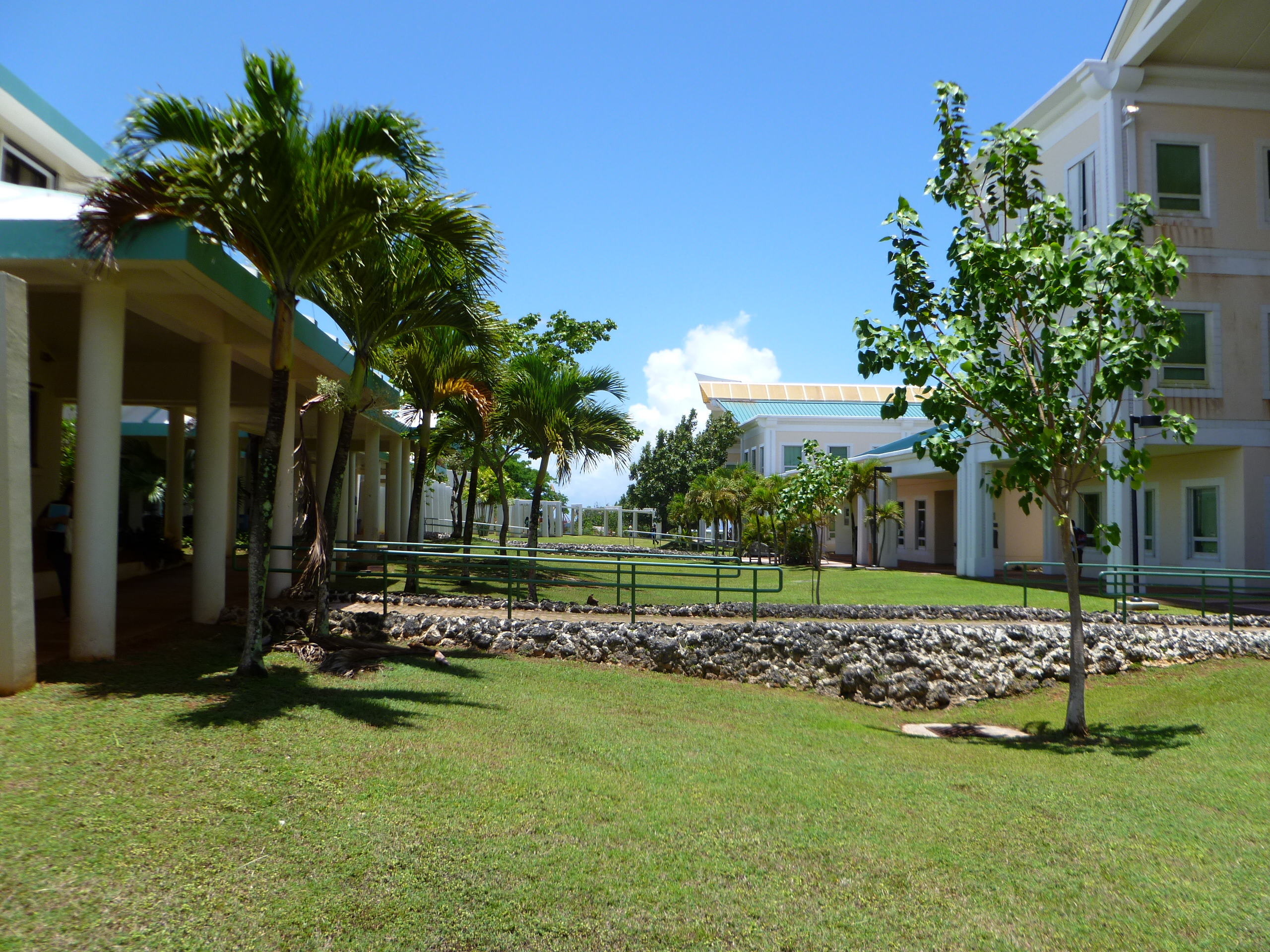 View of Central Campus at University of Guam.